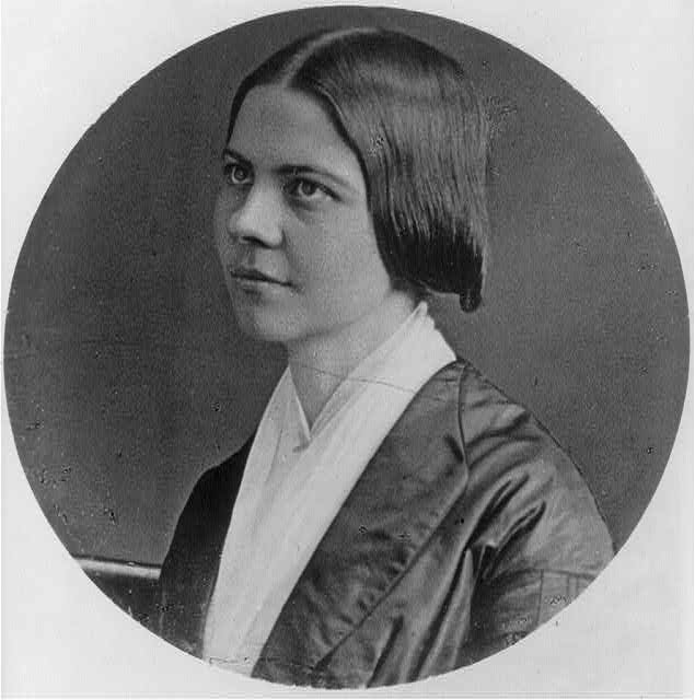 A scan of a photographic portrait of Lucy Stone, no date recorded on caption card